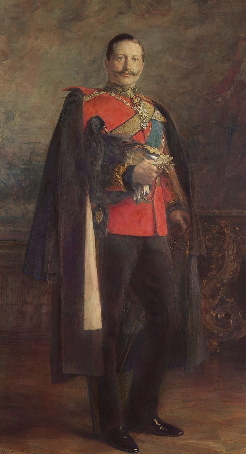 Portrait of Wilhelm II, Emperor of Germany